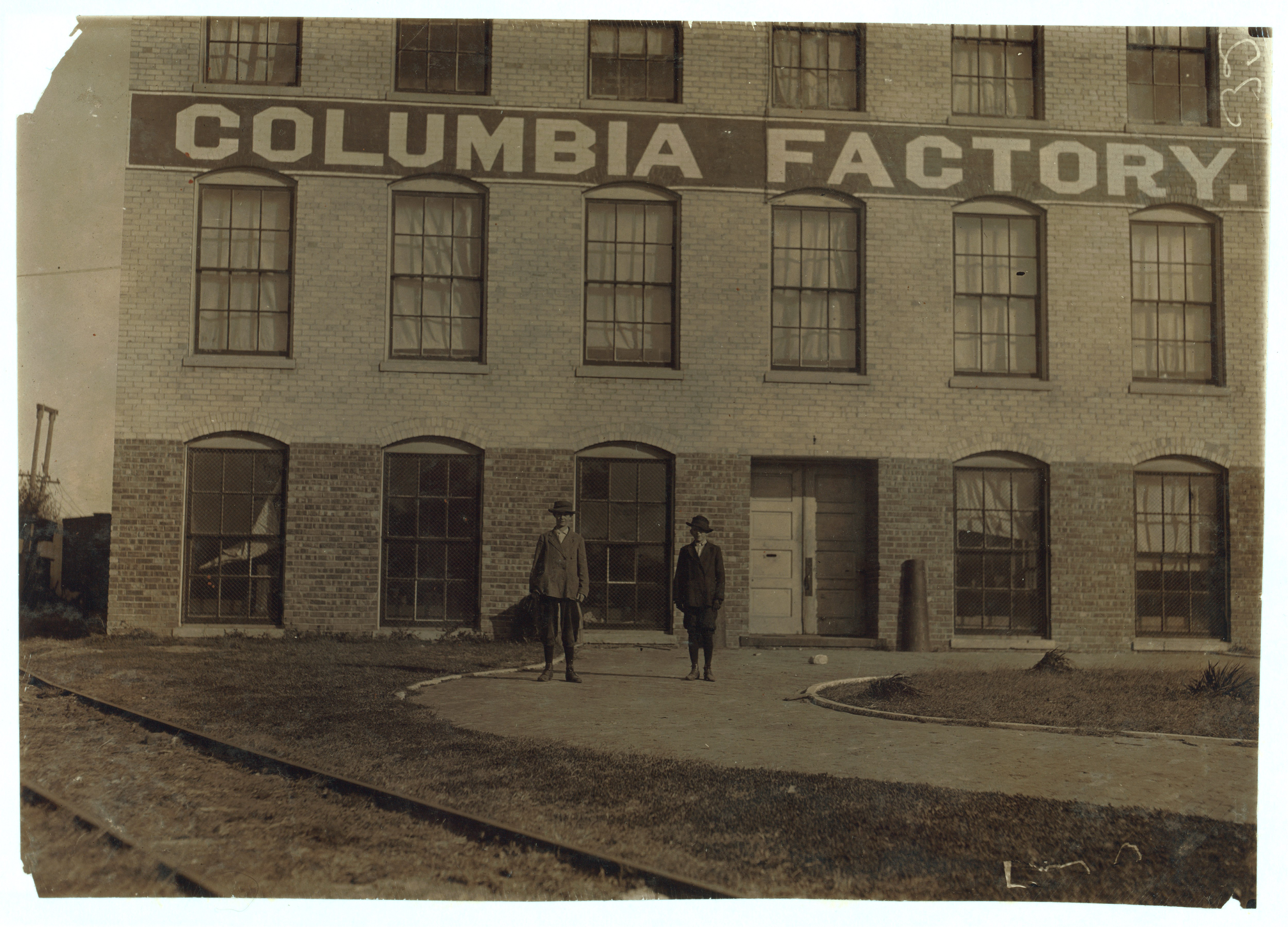 Title: Boys working at Hamilton Brown Shoe Company. Hubert Homesley, 13 years old, said he had been working there over six months. He and 10 other boys had been laid off. Erba Conley said he was 15 but looked 12, said the boys had been laid off because there is a fine if boys under 14 work,. Abstract: Photographs from the records of the National Child Labor Committee (U.S.) Physical description: 1 photographic print. Notes: Boys.; Child laborers.; Shoe industry.; Factories.